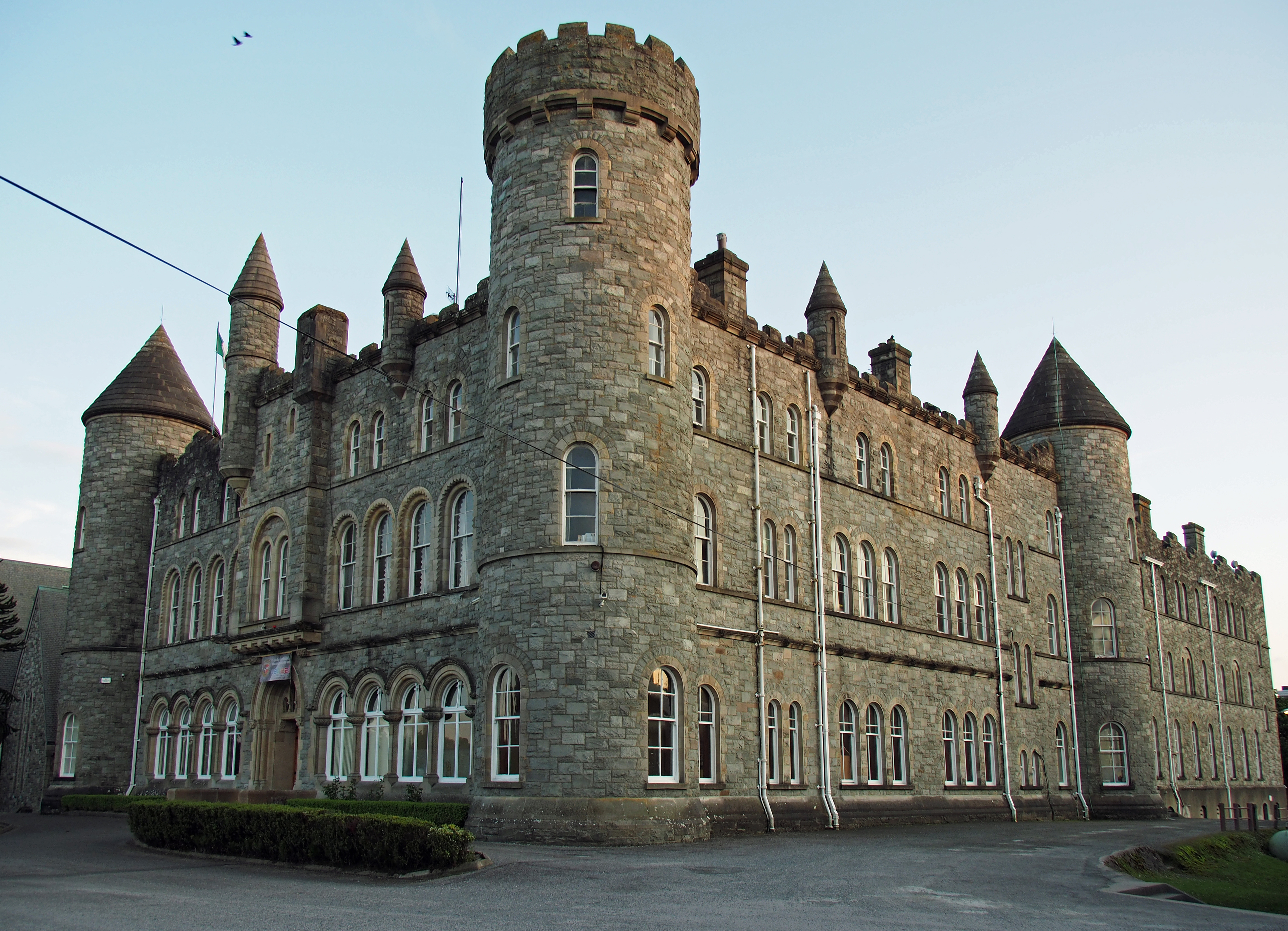 Saint Eunan's College, Letterkenny, Northern Ireland.